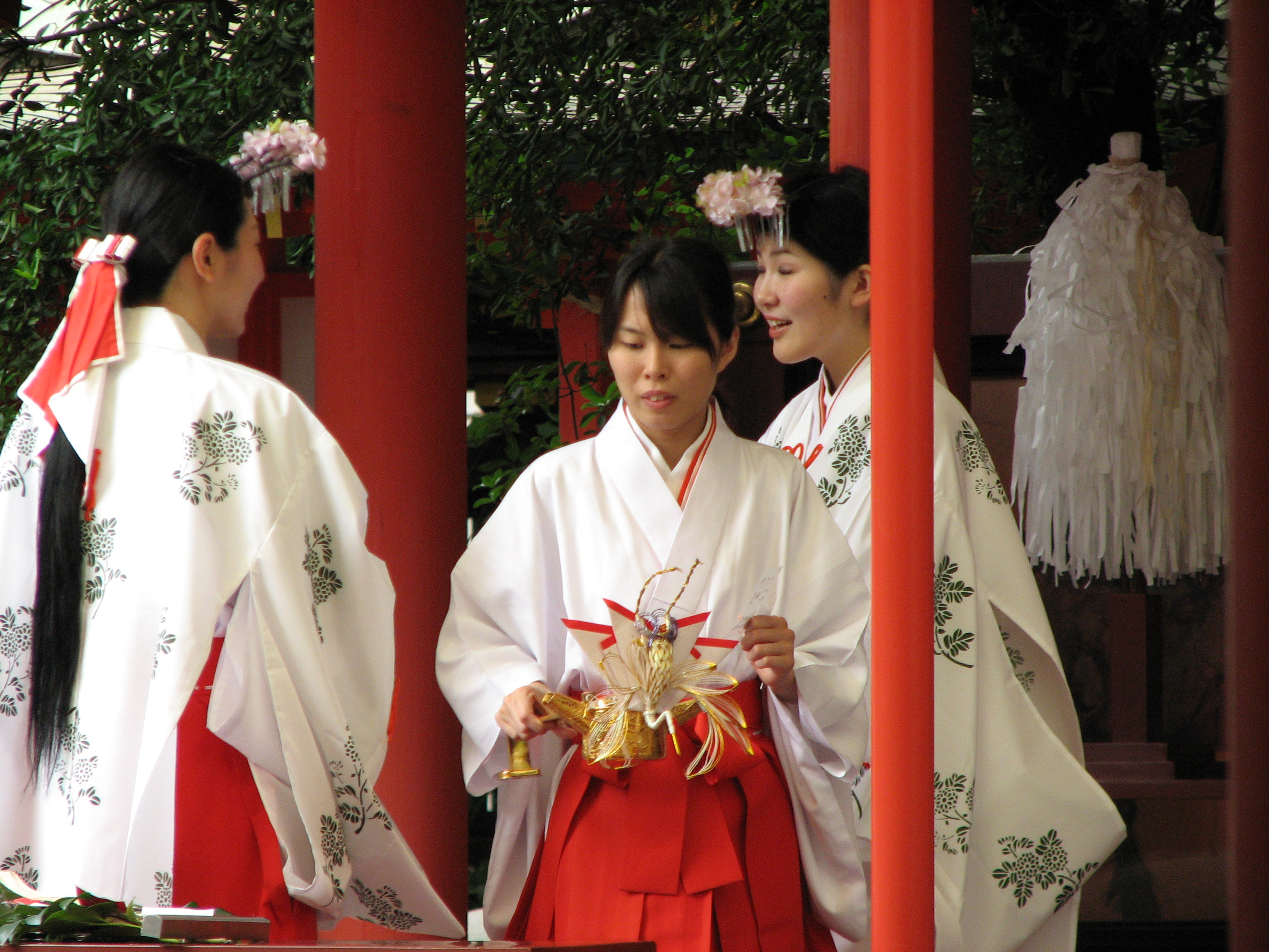 Miko at the Ikuta Shrine, preparing for a wedding ceremony